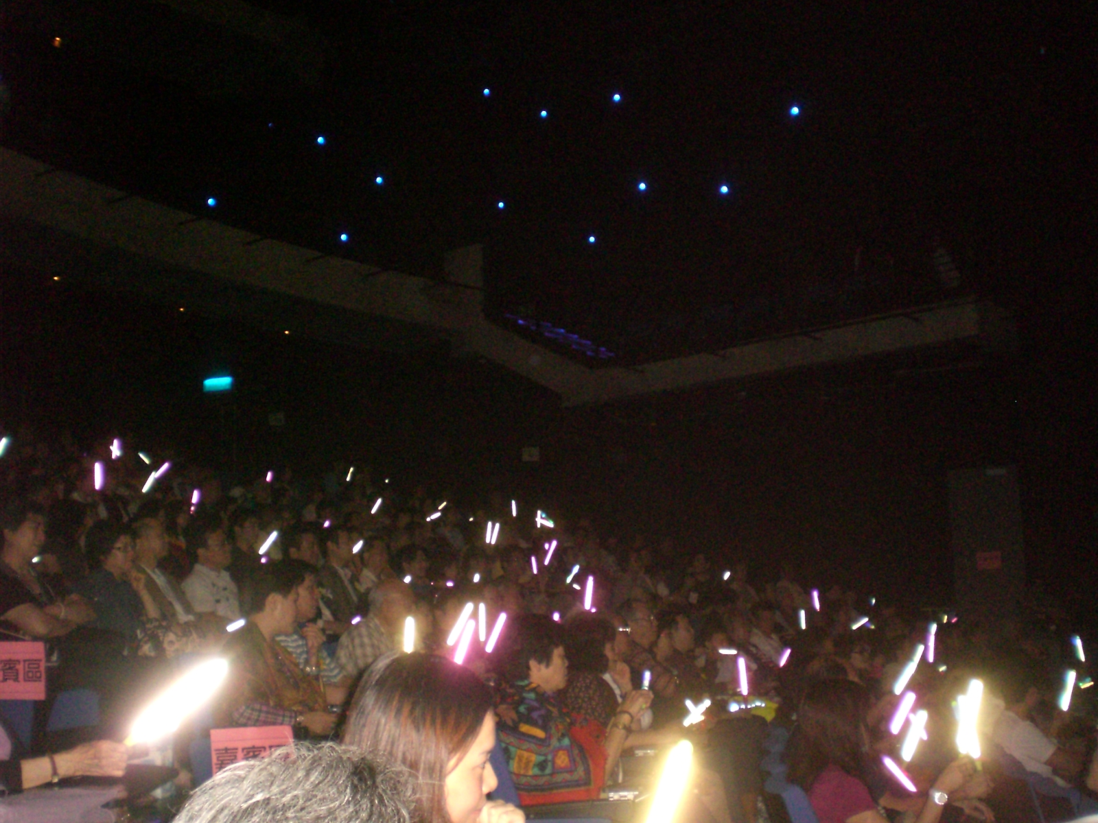 2009年5月10日, 柴灣青年發展中心 試業